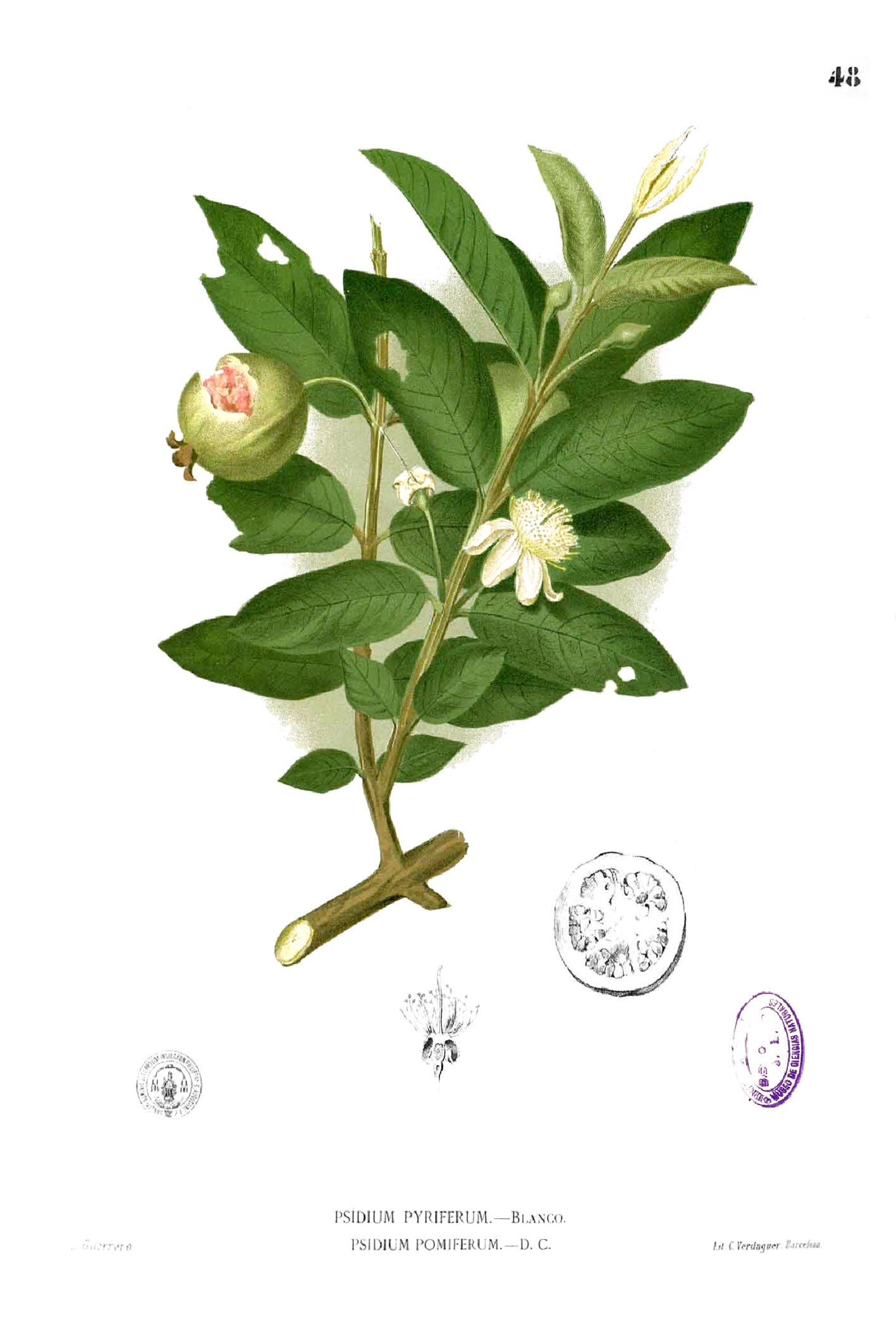 Plate from book